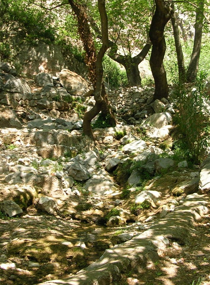 Castalian Spring in Delphi, Greece